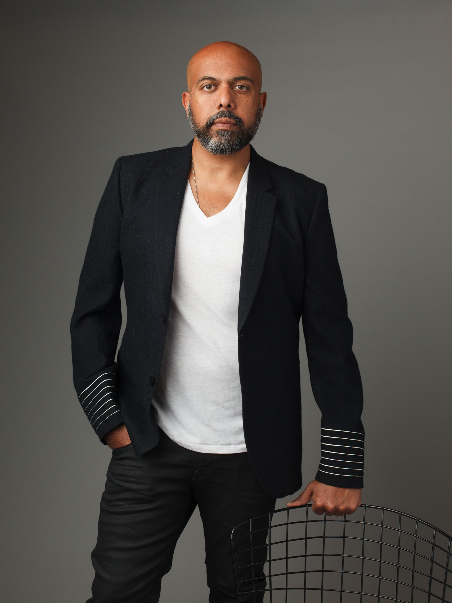 A 2017 photo of Imran Chaudhri, a British-American designer at Apple from 1995 to 2017.